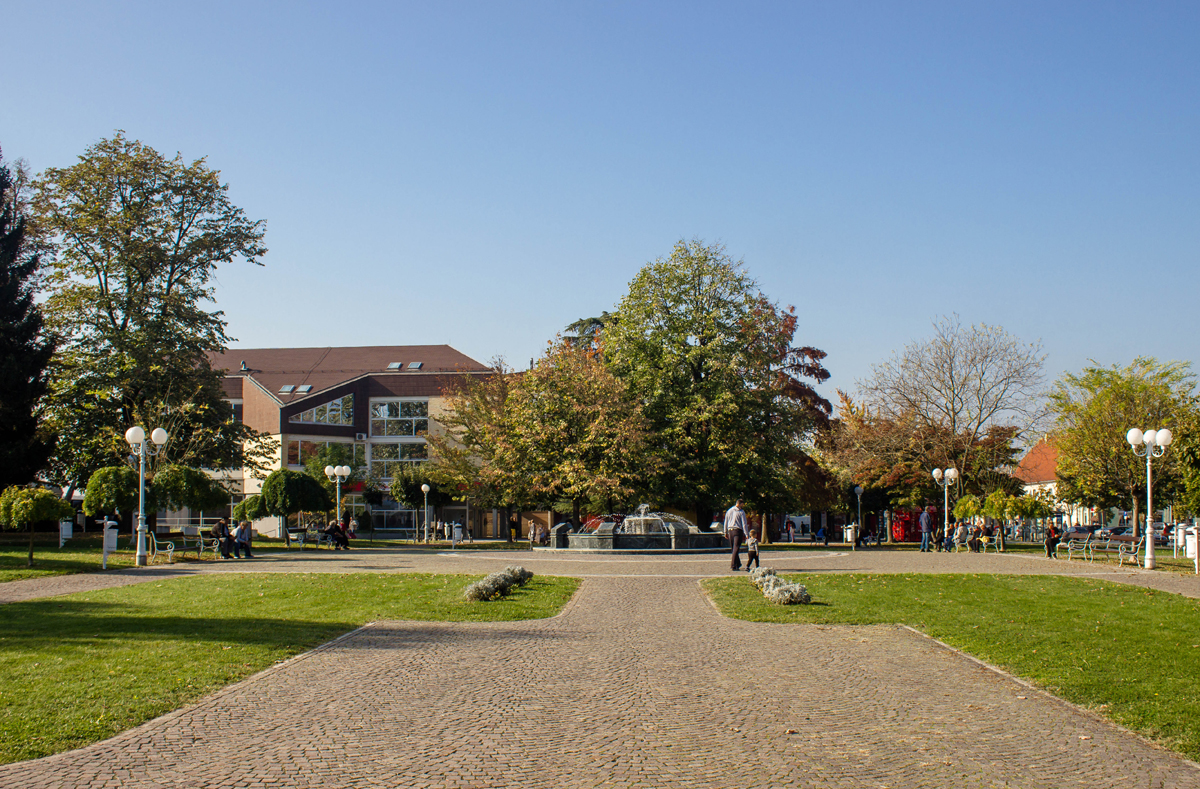 Square